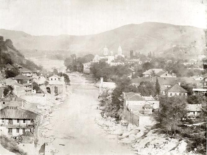 General view of Kutaisi.